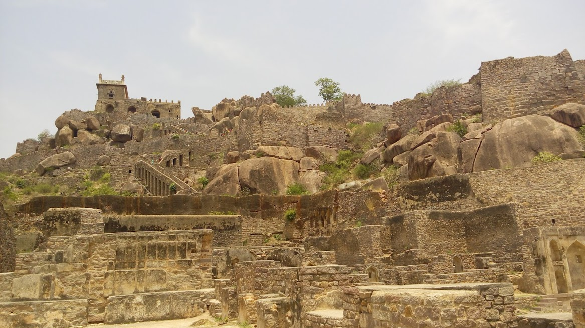 A View of Golconda Fort Image by user:haseeb1608